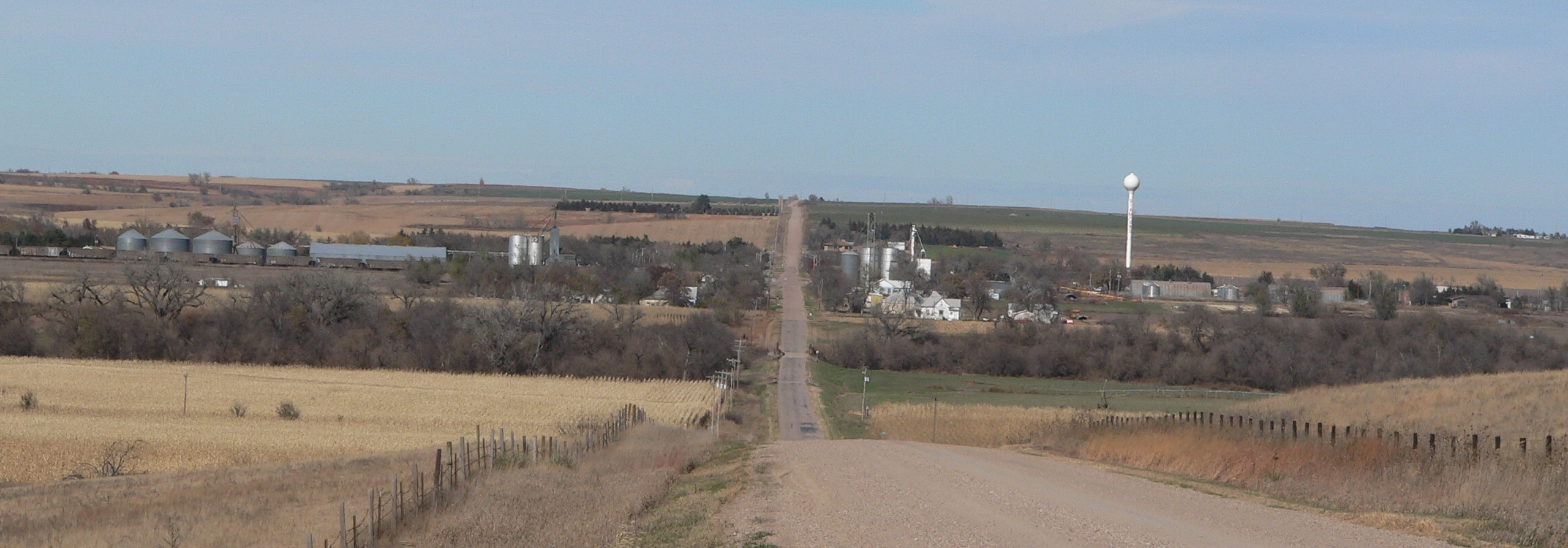 Stamford, Nebraska, seen from the south. The line of trees in the foreground is along Sappa Creek.